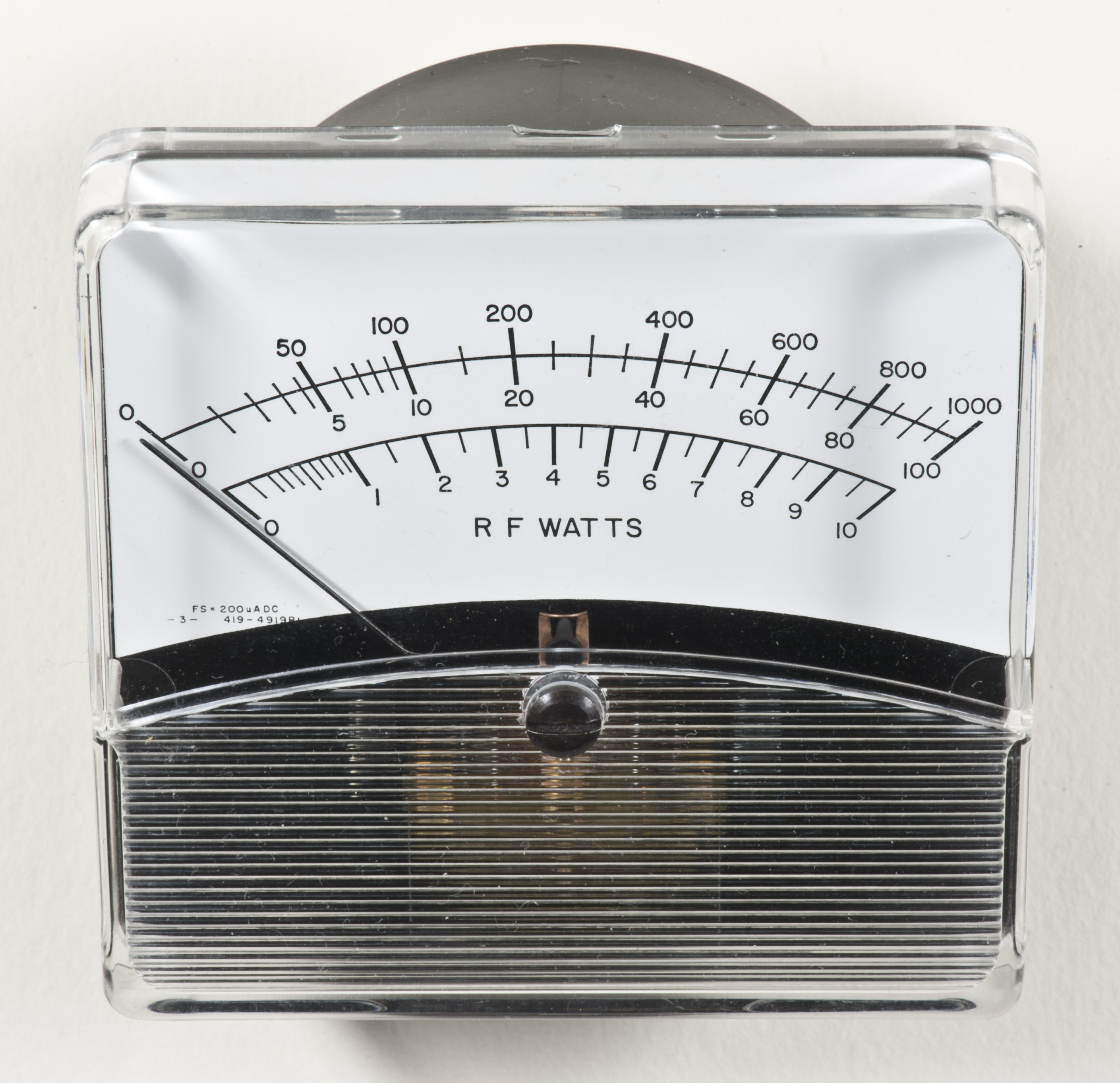 Watt meter (about 1980)